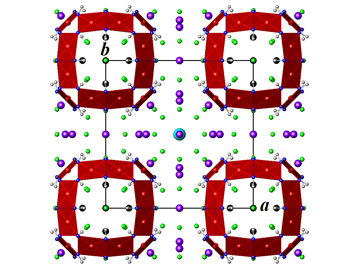 Crystal structure of boleite KPb26Ag9Cu24Cl62(OH)48 (Pm-3m) viewed along the c direction. Purple: lead atoms, black: silver atoms, red: copper atoms, cyan: potassium atoms, green: chlorine atoms, blue: oxygen atoms, gray: hydrogen atoms.